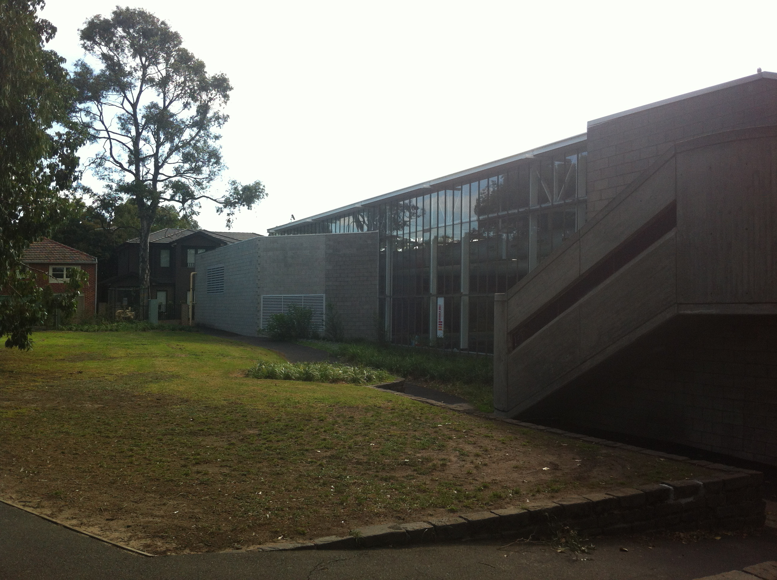 Harold Holt Memorial Swimming Centre